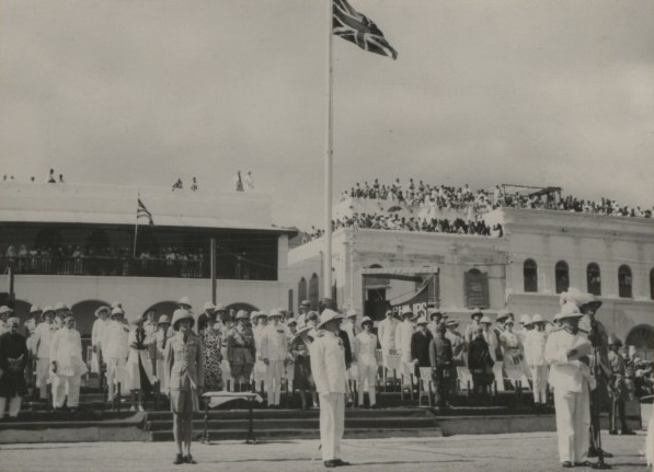 Photograph taken in Aden in January 1939 during ceremonies held in celebration of the centennial of British rule in Aden. On the right, the governor, Sir Bernard Reilly, is reading a proclamation.